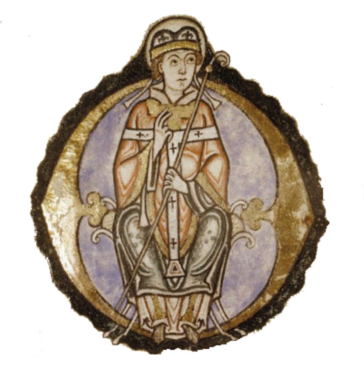 An illuminated O featuring an archbishop—presumably Anselm—from the copy of Anselm's Prayers and Meditations found in MS. Auct. D. 2. 6, a 12th-century illuminated text collected by the Benedictine nunnery at Littlemore and held since c.1672 by Oxford's Bodleian Library.